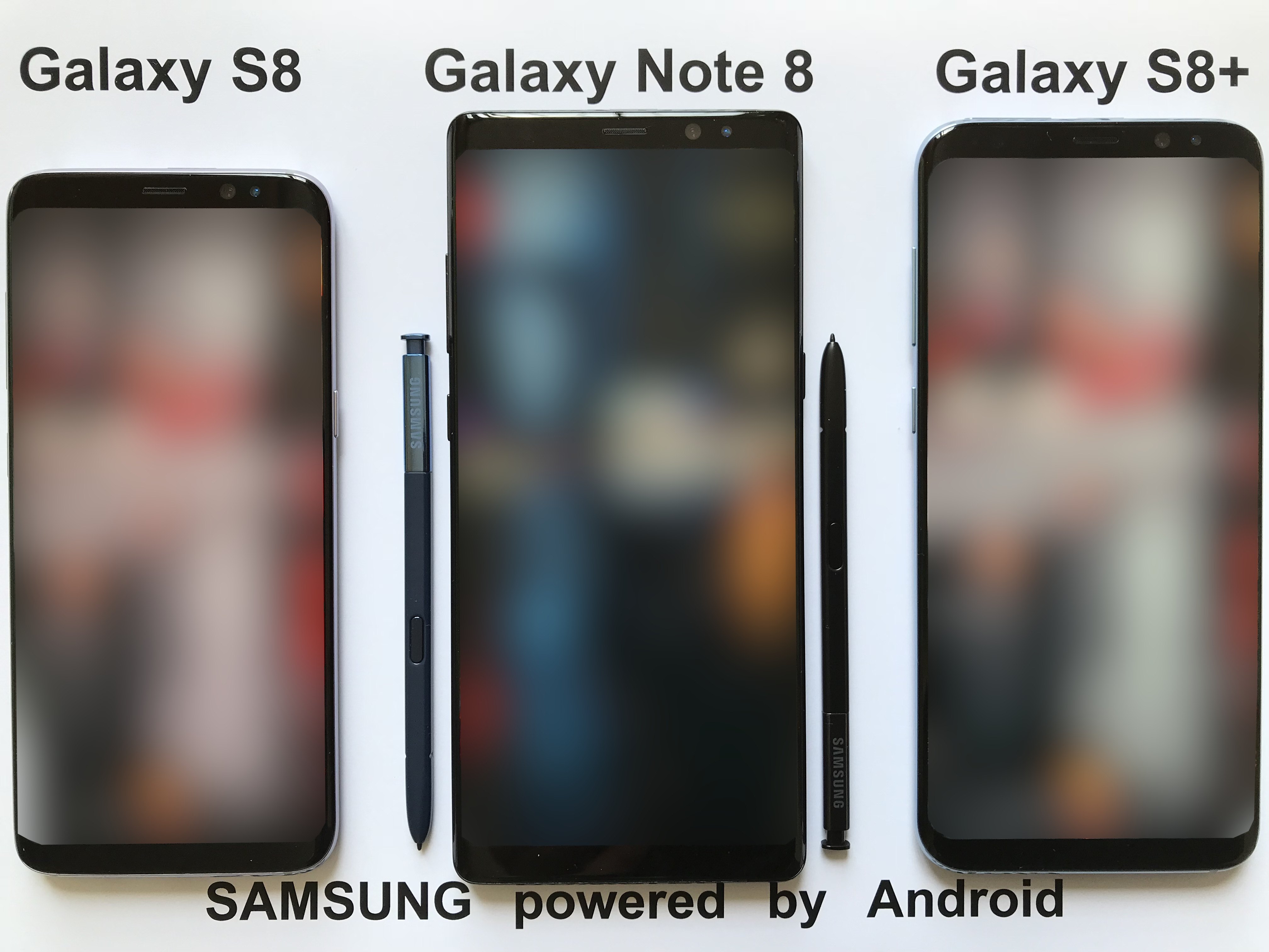 Samsung Galaxy S8, S8 +, Note 8